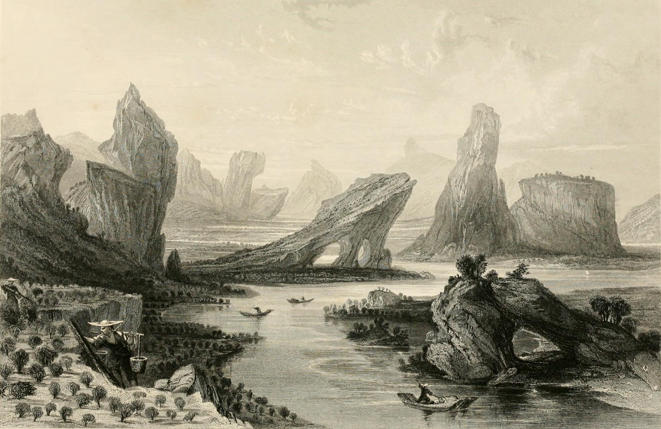 Woo-e-shan, or Bohea Hills, Province of Fo-kien.